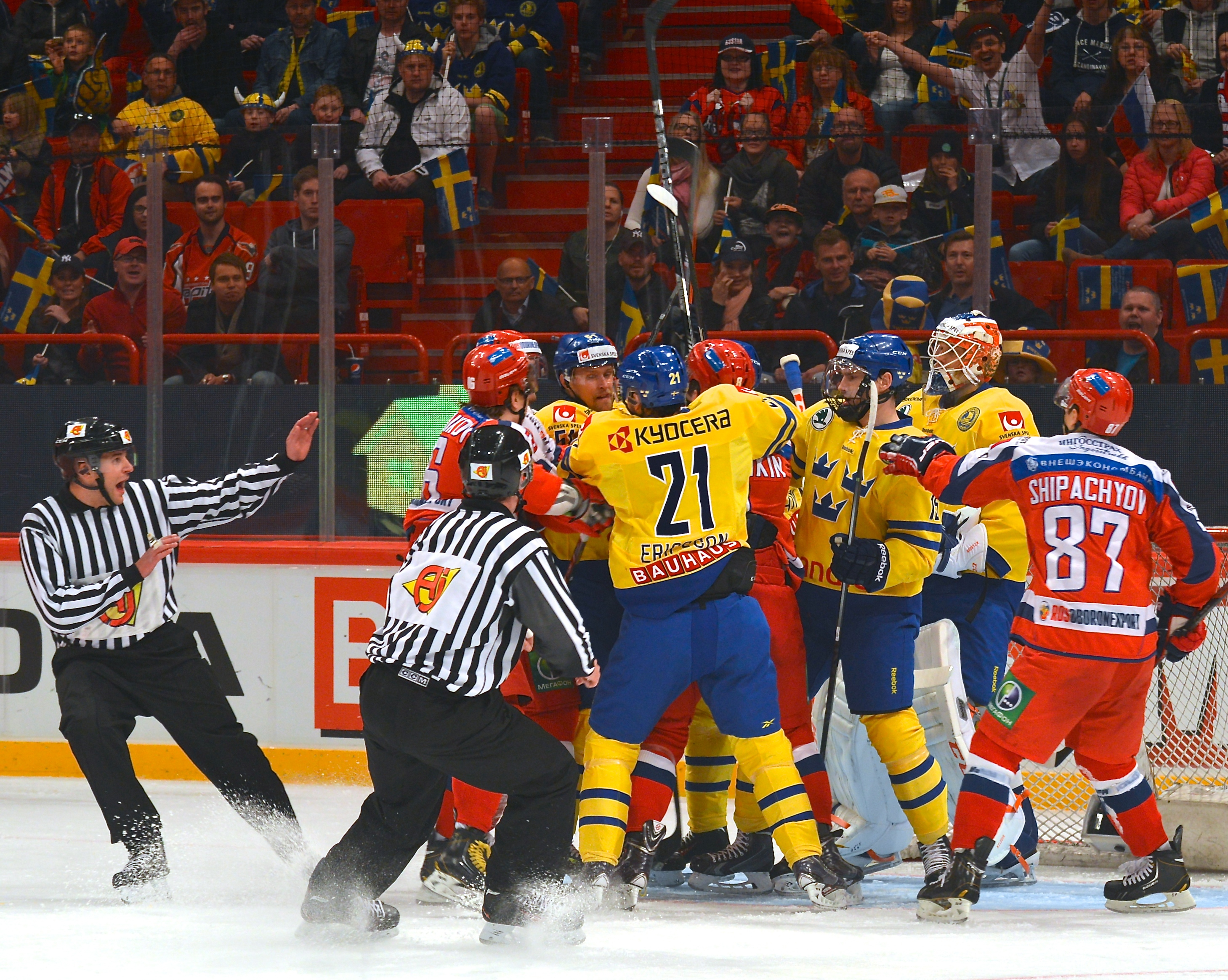 Ishockey Sweden-Russia (2-0) during Oddset Hockey Games at the Ericsson Globe in Stockholm on May 4th, 2014.